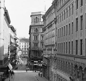 Gundelhof around 1940